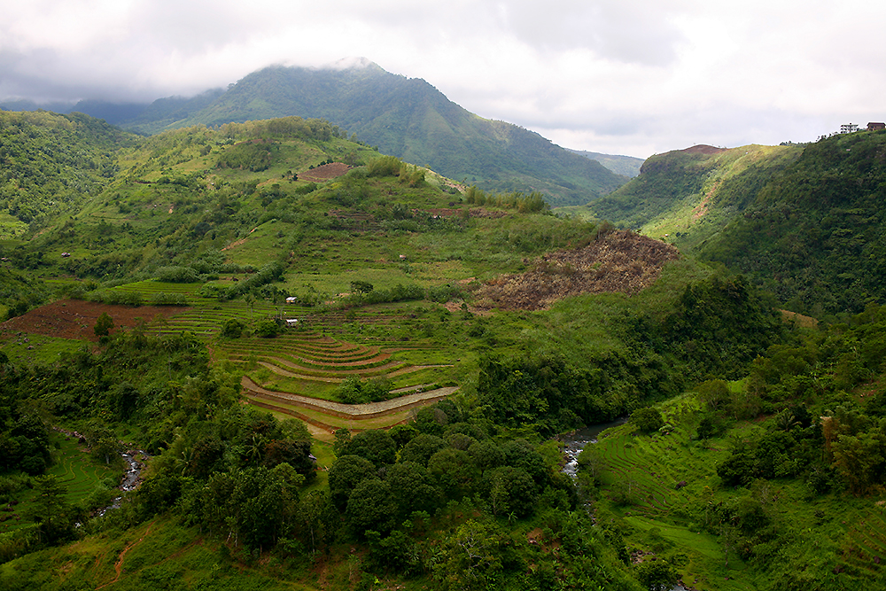 Kanlaon Volcano, Negros Occidental, Philippines, seen from Don Salvador Benedicto